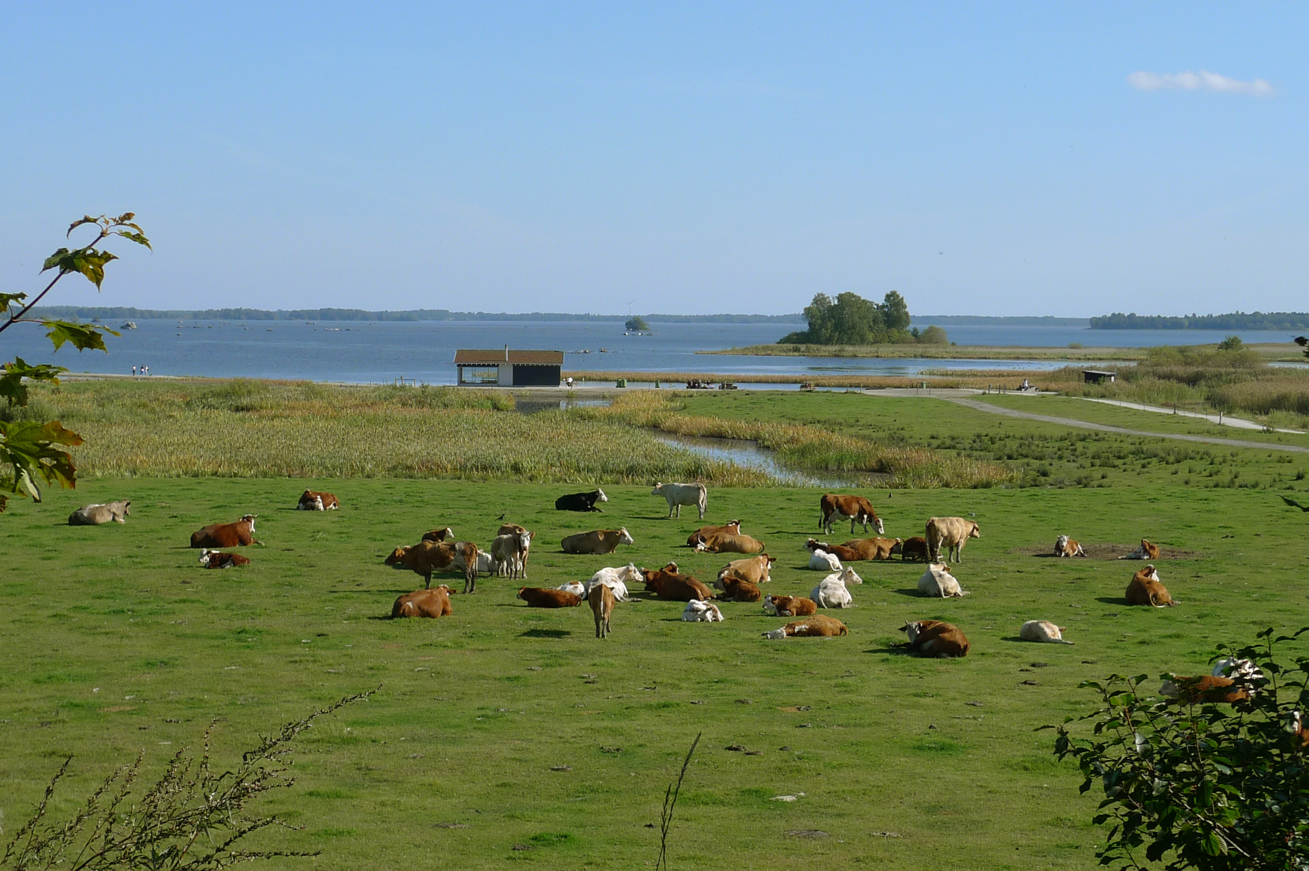 The nature park "Rynningeviken", Örebro, Sweden